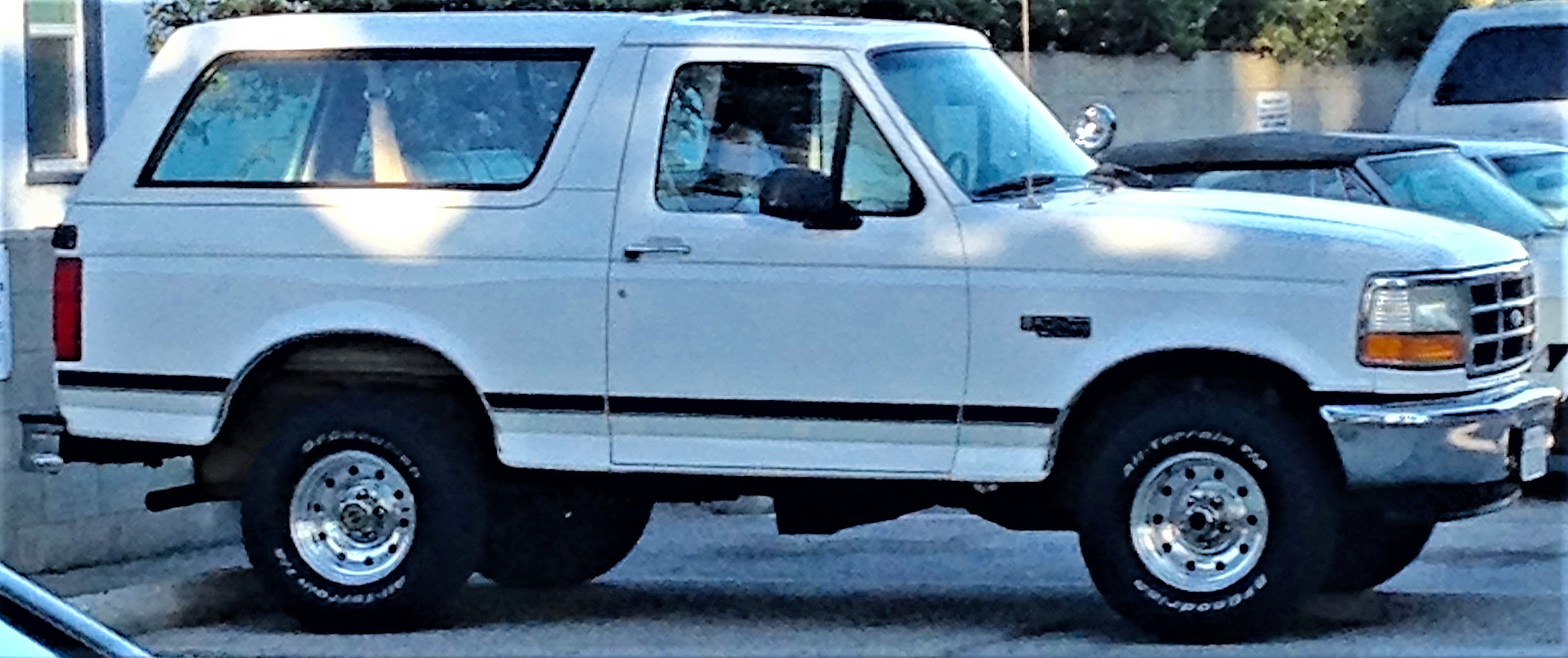 Ford Bronco (5th generation)